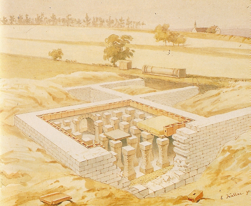 Hypocaustum excavated behind the old city of Rotenburg am Neckar (Latin: Sumelocenna). A hypocaust (Latin hypocaustum) was an ancient Roman system of central heating / underfloor heating. (Watercolor painting)